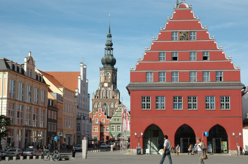 Greifswald's gothic-baroque Town Hall and central market square